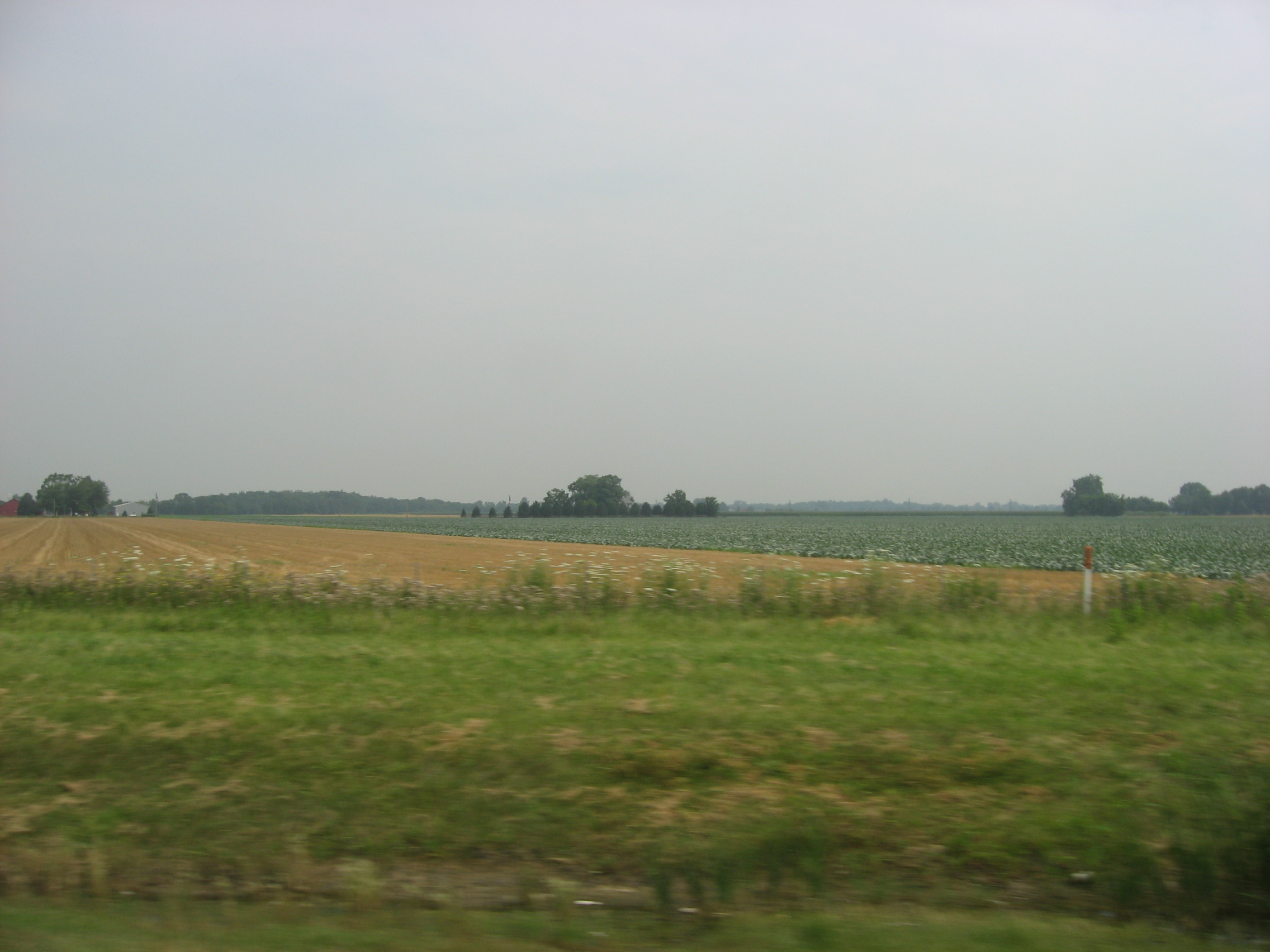 Broad farm fields in the "panhandle" of northern Woodville Township, Sandusky County, Ohio, United States. Picture taken looking northward from the concurrent Interstates 80/90 (the Ohio Turnpike).